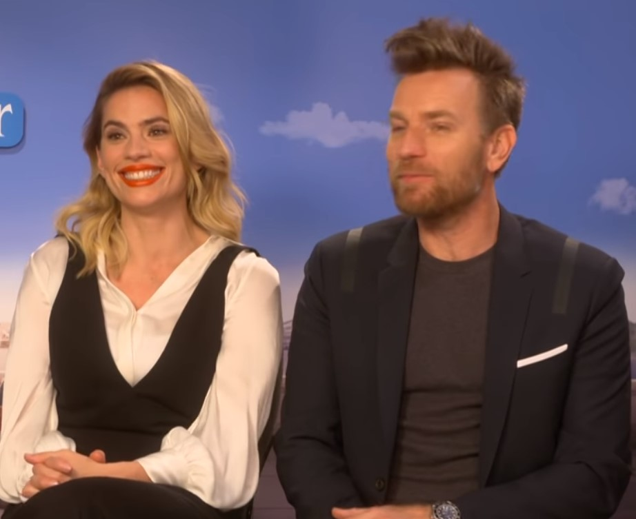 The stars of Disney’s Christopher Robin, Hayley Atwell, Ewan McGregor, the voice of Winnie The Pooh, Jim Cummings, plus Winnie The Pooh, Piglet, Eeyore and Tigger THEMSELVES sit down with MTV to reveal their funniest moments on set, how you can do their iconic voices, and Ewan McGregor’s plan for a spinoff to his role as Lumiere in Disney’s Beauty And The Beast!